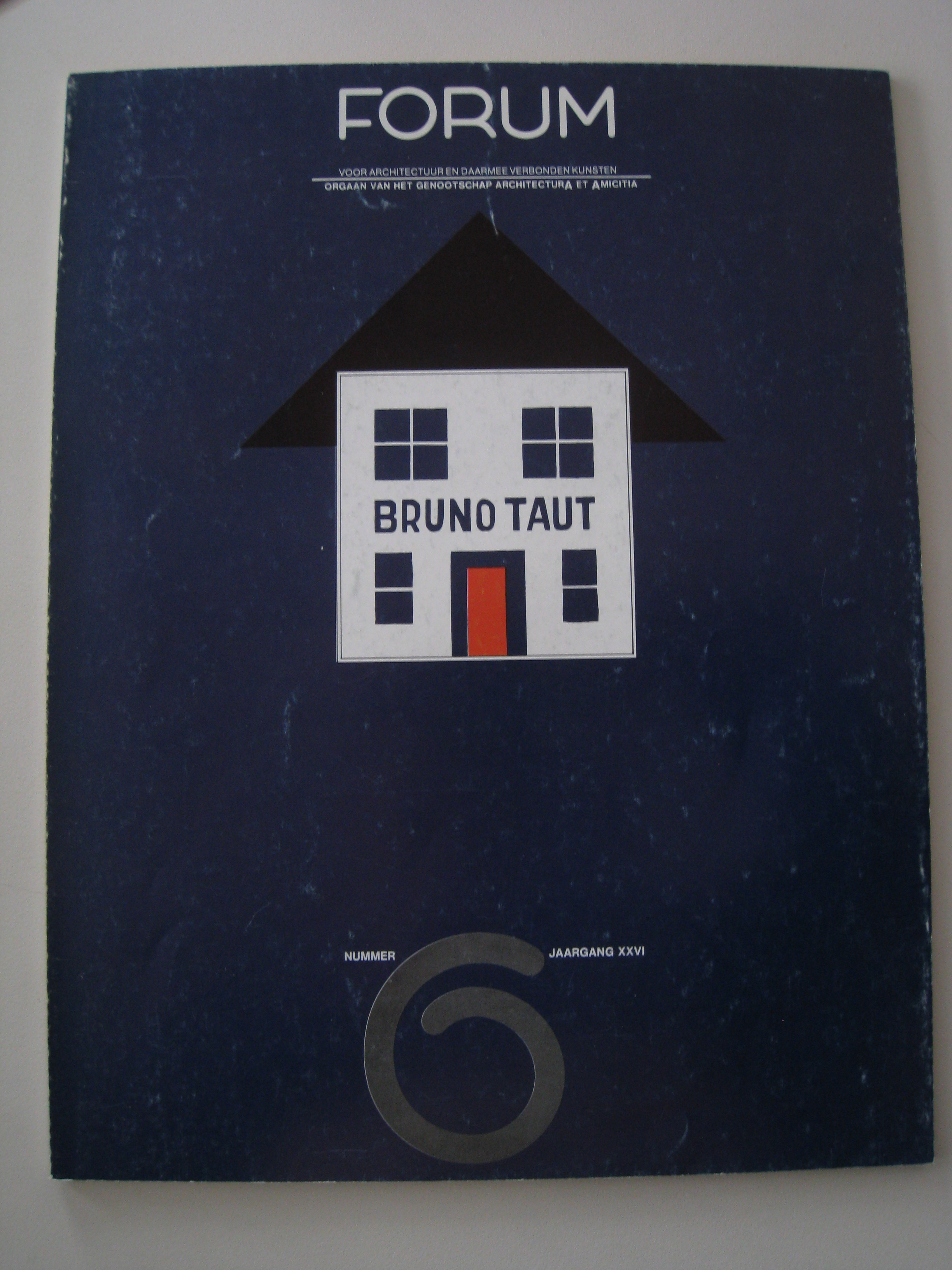 Forum Netherlands